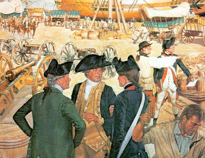 On the docks of New London the second embarkation is underway. John Parke, Assistant Quartermaster General, center, and Ezekiel Cheever, Commissary of Artillery, give instructions to a captain of artillery whose company has just arrived from Boston. In the background a civilian contractor points to another pier where the captain will find the ship to transport his men and cannon. The two officers can be identified as members of the Corps of Artillery by the red facings and yellow buttons of their uniforms. Parke wears the uniform of the General Staff, a blue coat with buff facings. On the other hand Cheever, as Commissary, wears civilian dress.